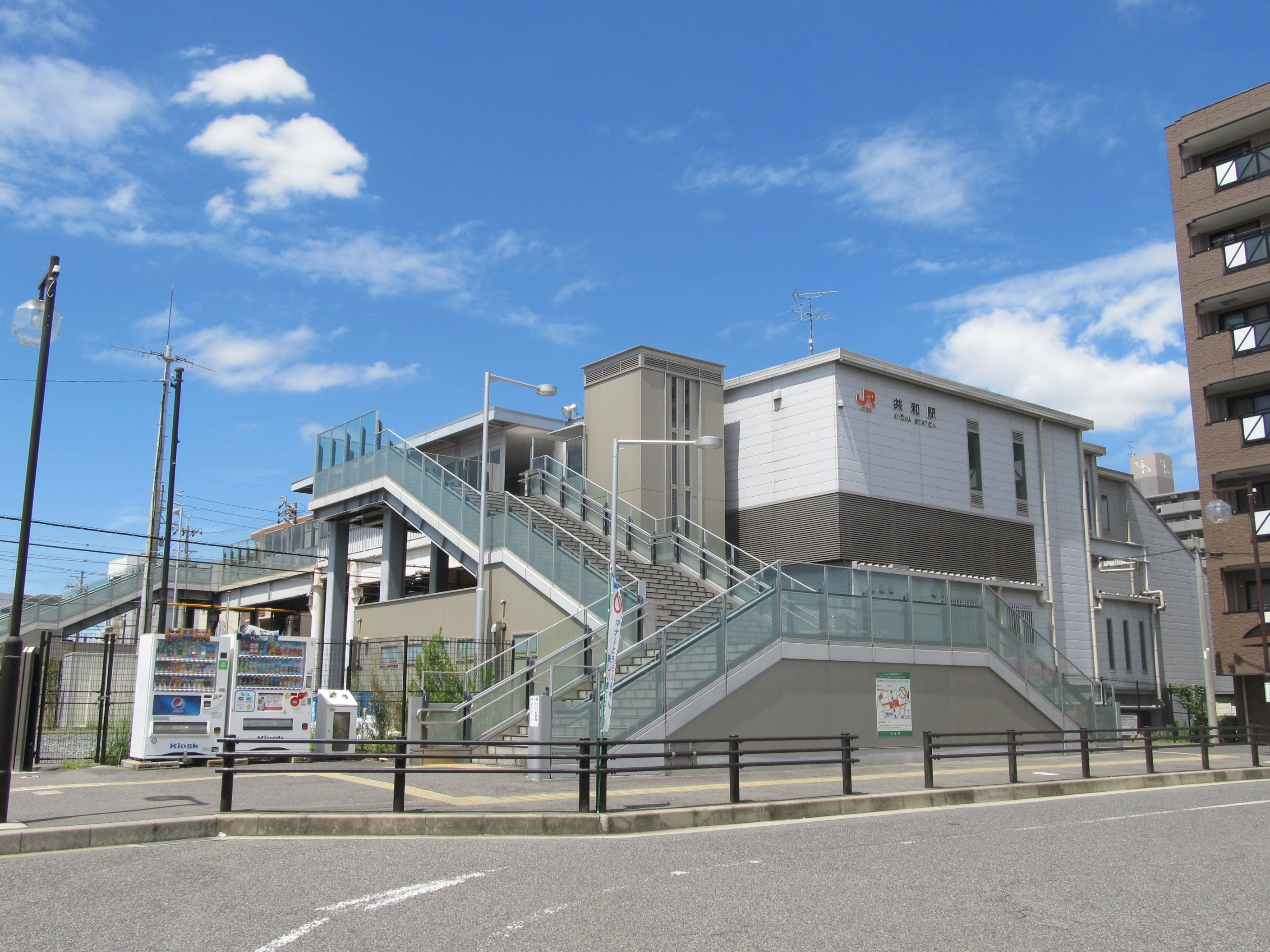 Central Japan Railway Tōkaidō Main Line Kyōwa Station Building